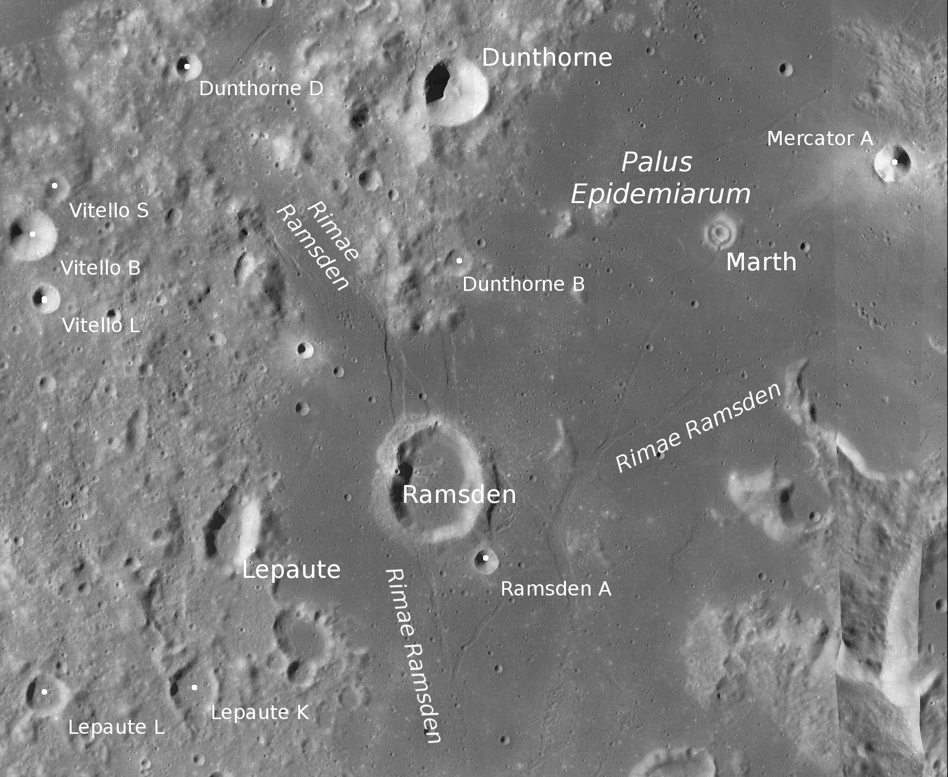 Craters Ramsden, Lepaute and Marth with Rimae Ramsden (detail of LRO - WAC global moon mosaic; Mercator projection)